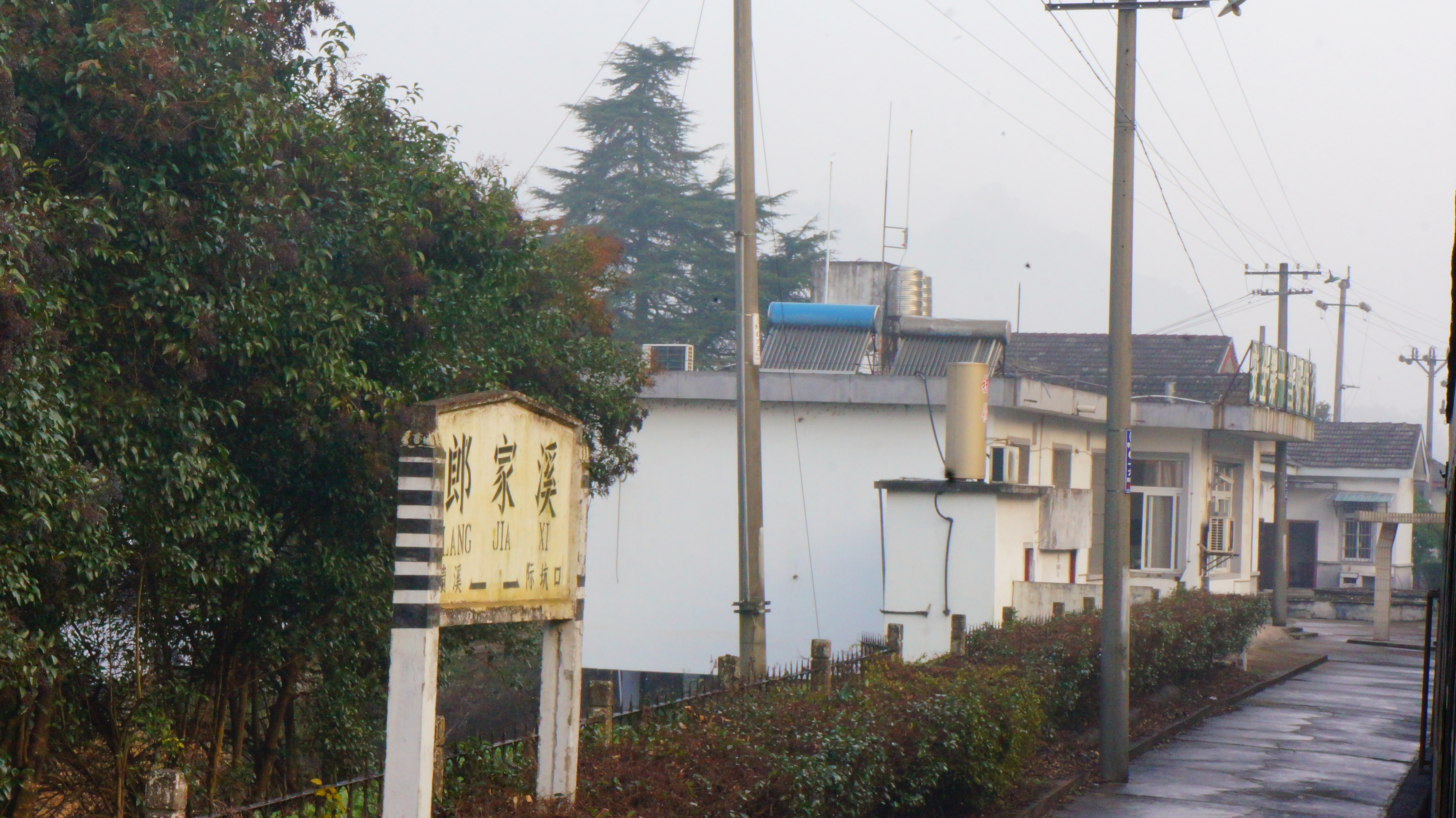 201601Langjiaxi Railway Station